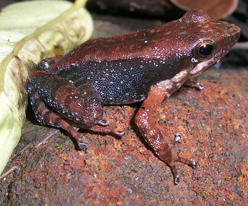 Most probably Micrixalus fuscus (Dusky torrent frog) (Boulenger, 1882) Id by Dr K. V. Gururaja from photograph only. No specimens taken. Photograph by L. Shyamal, Tadiandamol, 2006